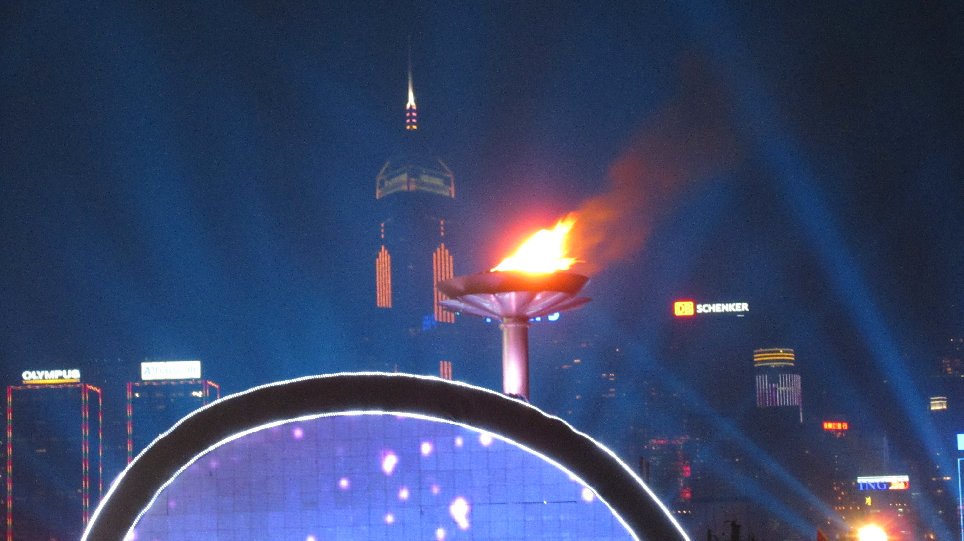 2009 East Asian Games Opening Ceremony